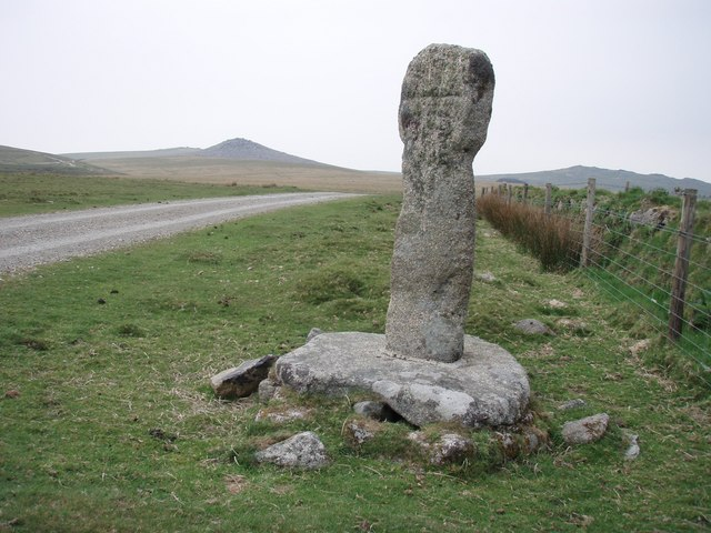 Middle Moor Cross, Bodmin Moor This beautiful incised cross (an old marker stone with a cross cut into it) lies outside the Camperdown Farm enclosure, Rough Tor is in the background.